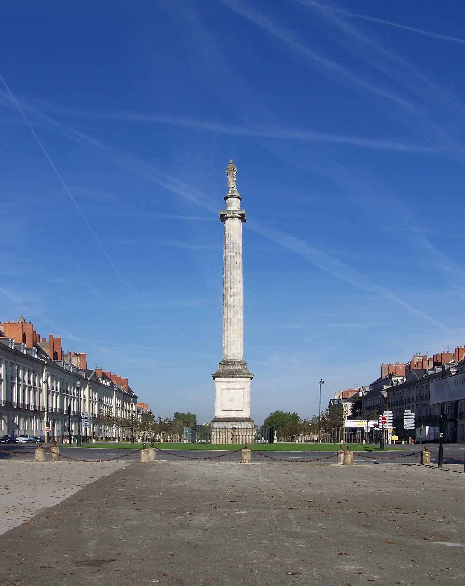 Louis XVI column in Nantes.